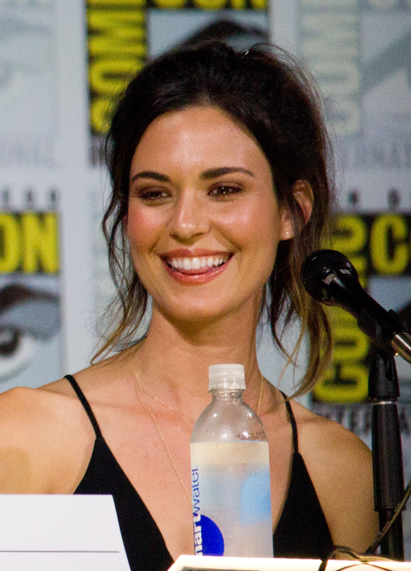 Cast & creators panel at SDCC 2017